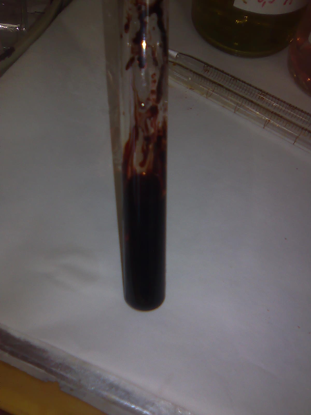 Pentaaqua(thiocyanato)iron(III) chloride. Test of Iron(III). Photo taken at Slovak University of Technology.